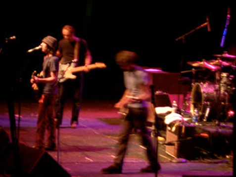 Singer-songwriter Elliott Smith performing at Seattle's Bumbershoot festival